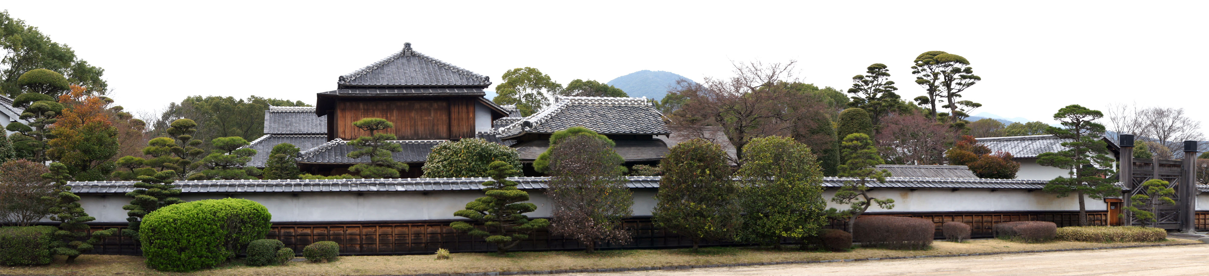 Kyū Hosokawa Gyōbutei, former samurai villa, panorama。